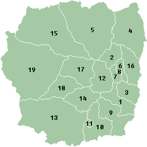 List of districts (fivondronana) in Antananarivo province